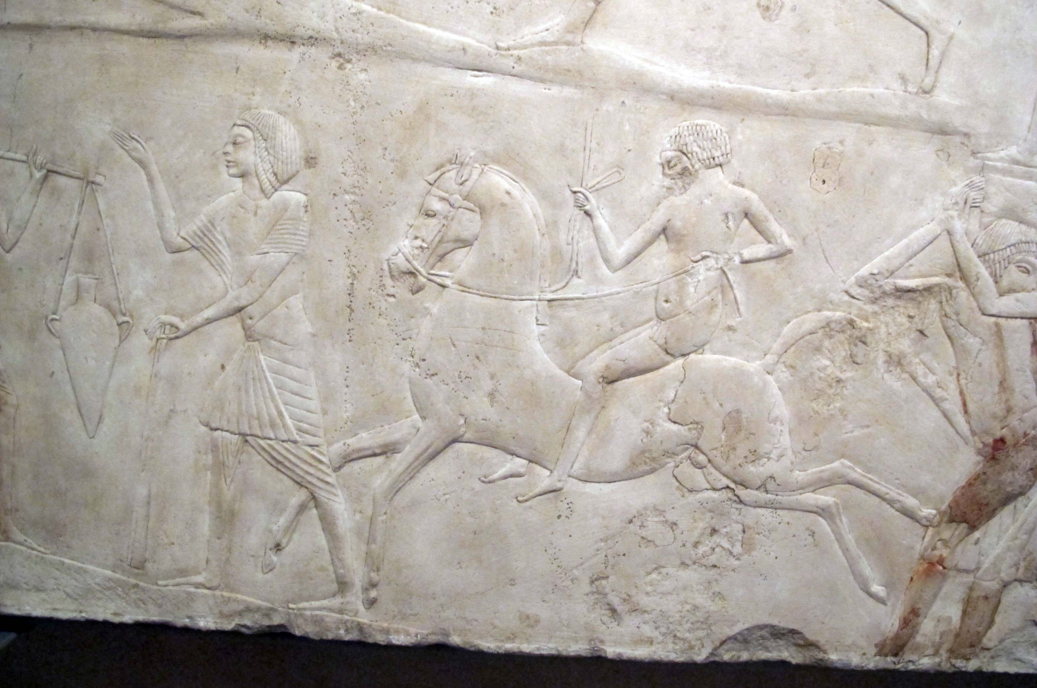 Egyptian antiquities in the Archeological Museum of Bologna